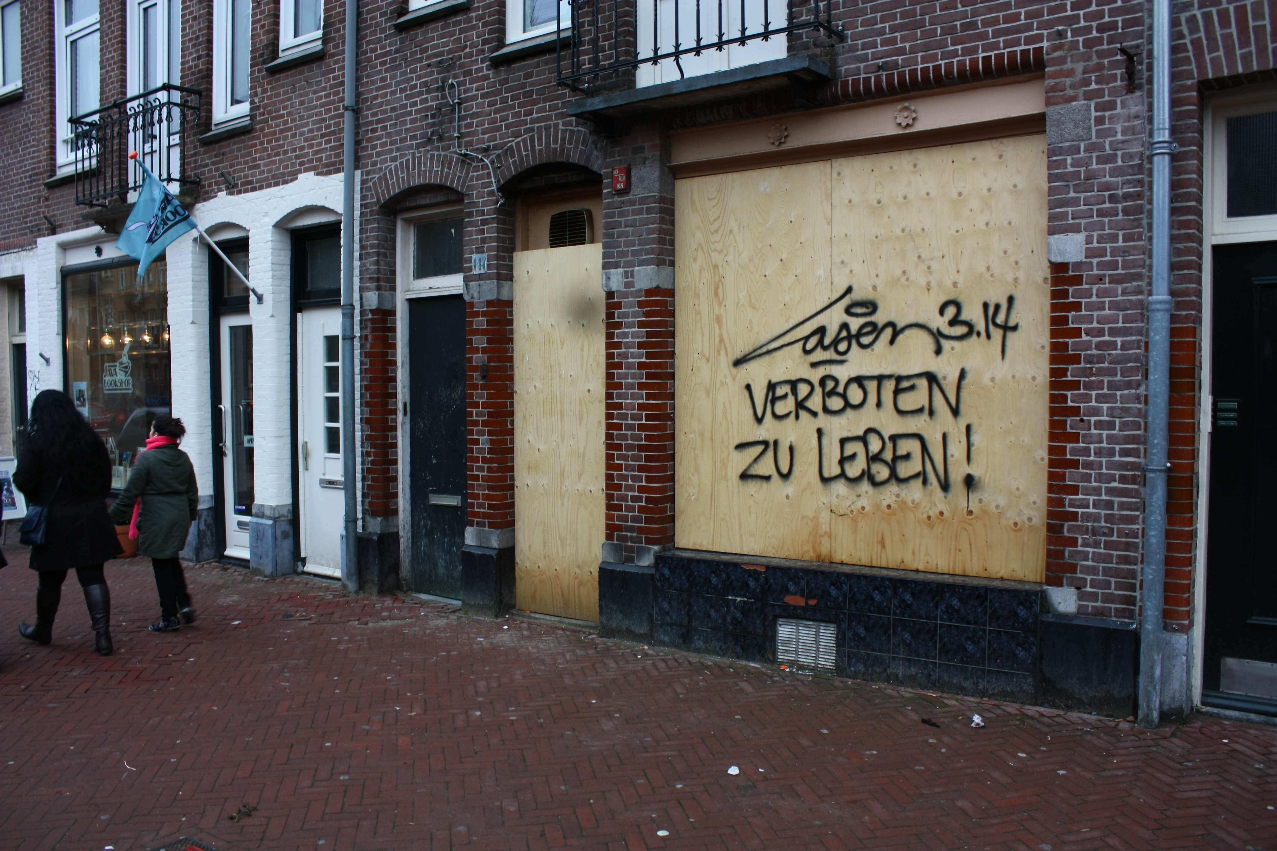 Graffiti from the Amsterdam artist Laser 3.14. In this poem / piece, he writes: "VERBOTEN / ZU LEBEN!".